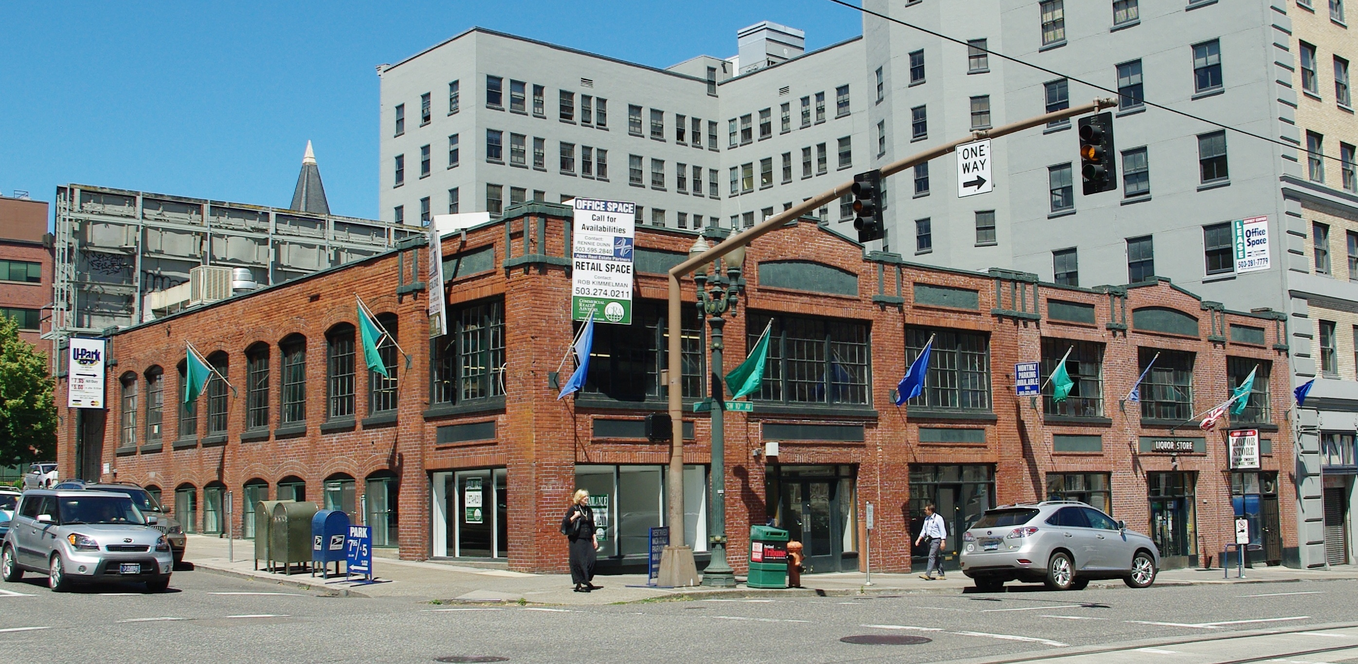 The Auto Rest Garage, a two-story brick building on SW Tenth Avenue at Salmon Street in Portland, Oregon, was built in 1917 and is listed on the U.S. National Register of Historic Places. (The taller building in the center and righthand background is the Medical Arts Building.)